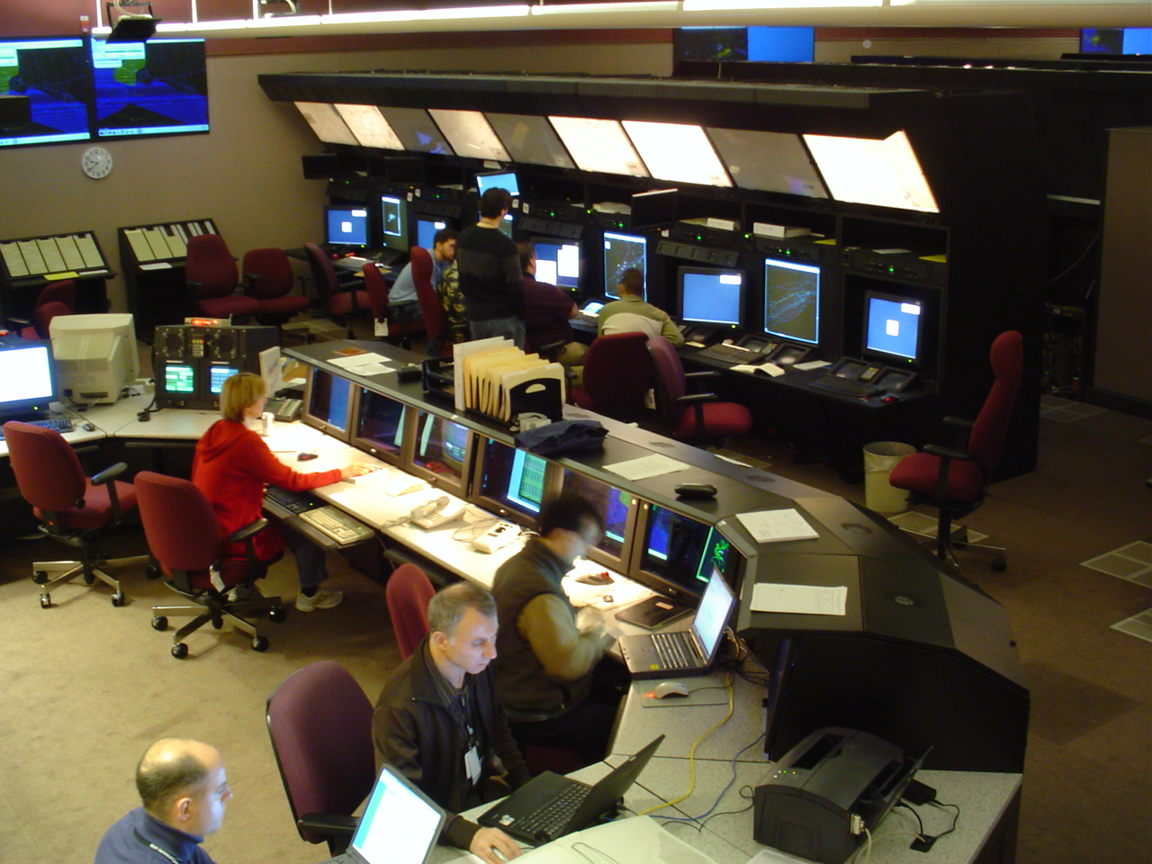 United States Department of Transportation Federal Aviation Administration Anchorage Air Route Traffic Control Center Advanced Technologies & Oceanic Procedures Operations Area